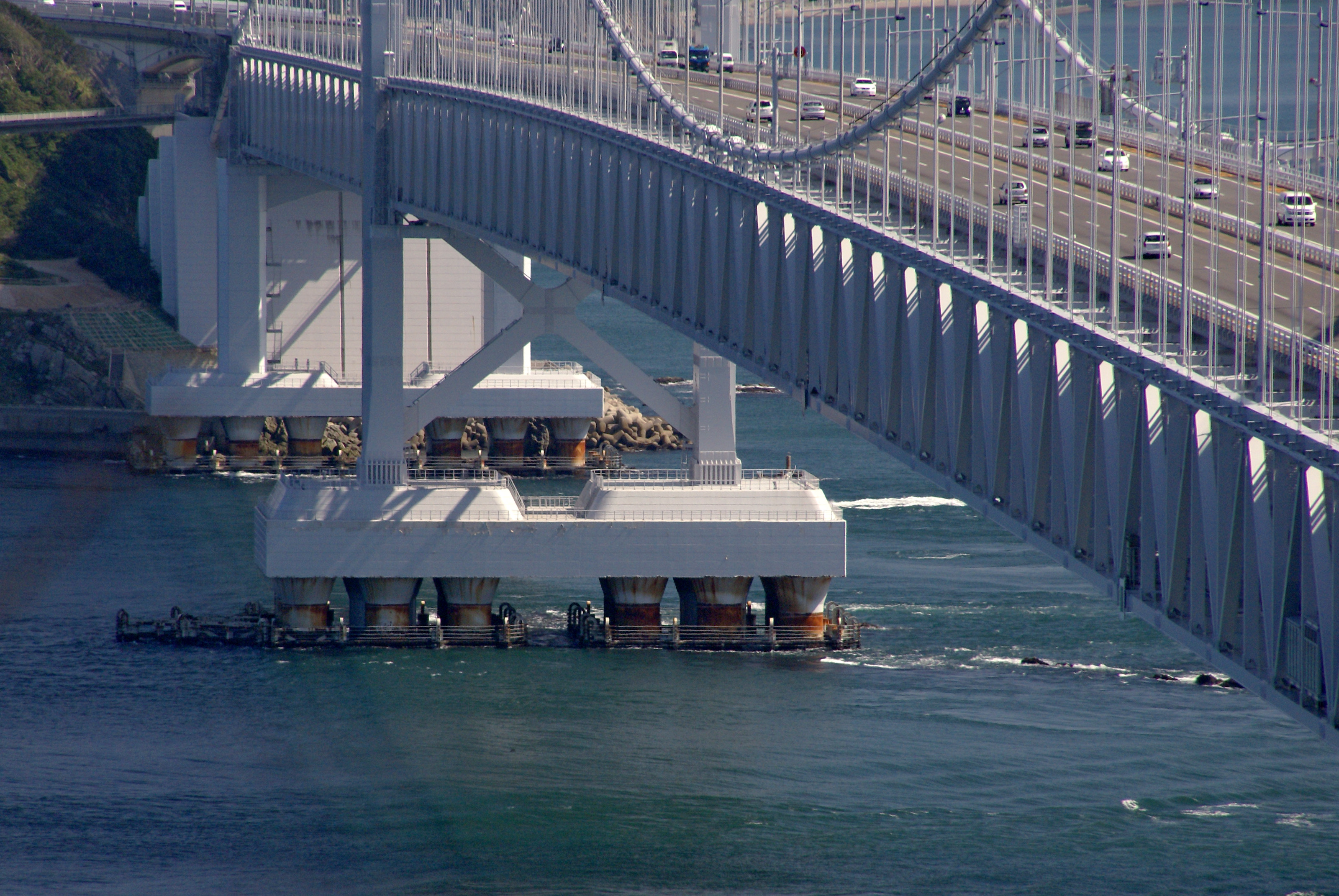 Big Naruto Bridge at Naruto, Tokushima prefecture, Japan